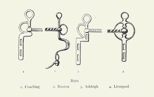 Four driving bits in the book Riding and driving for women, 1912.